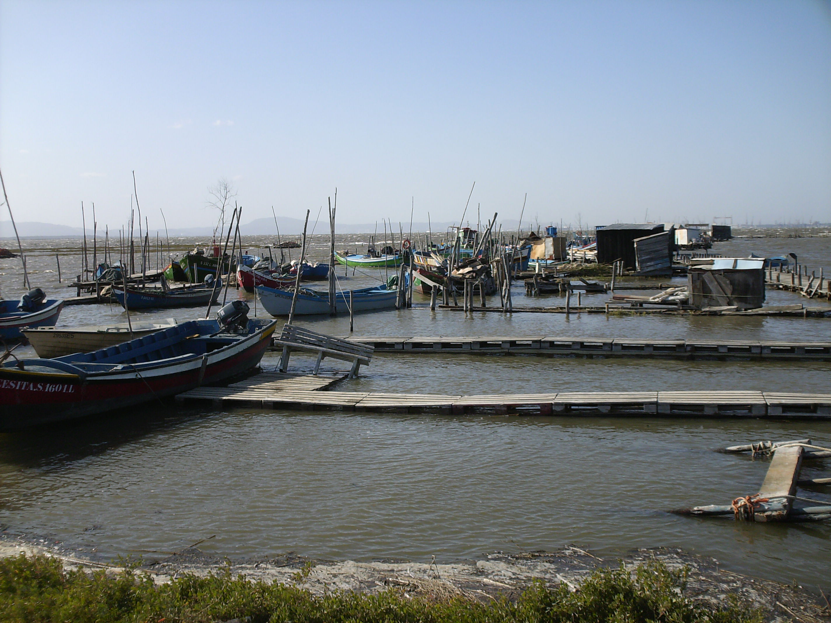 Sado River fishing port in Carrasqueira, Alcácer do Sal, Portugal.